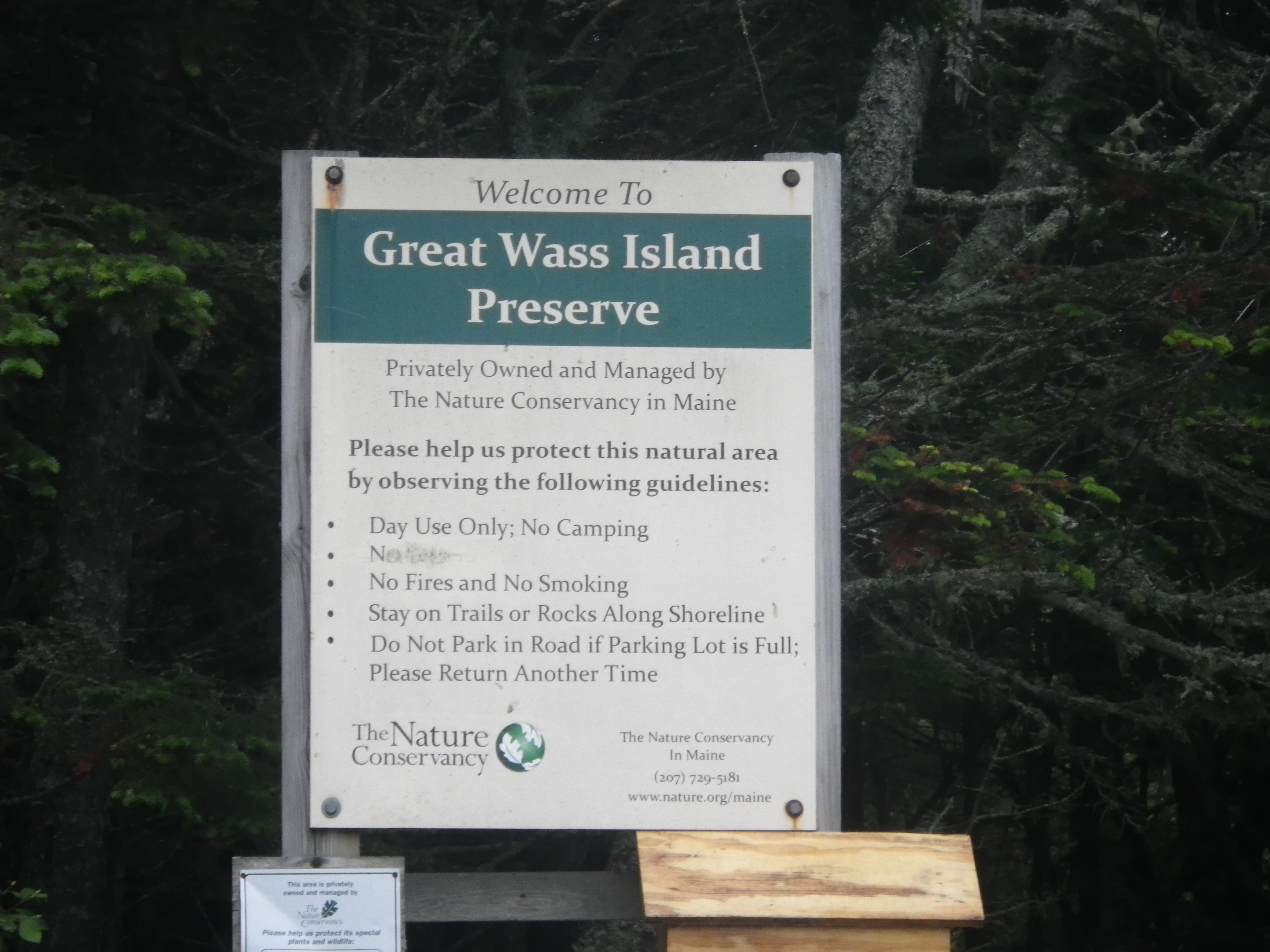 Main trail entrance sign